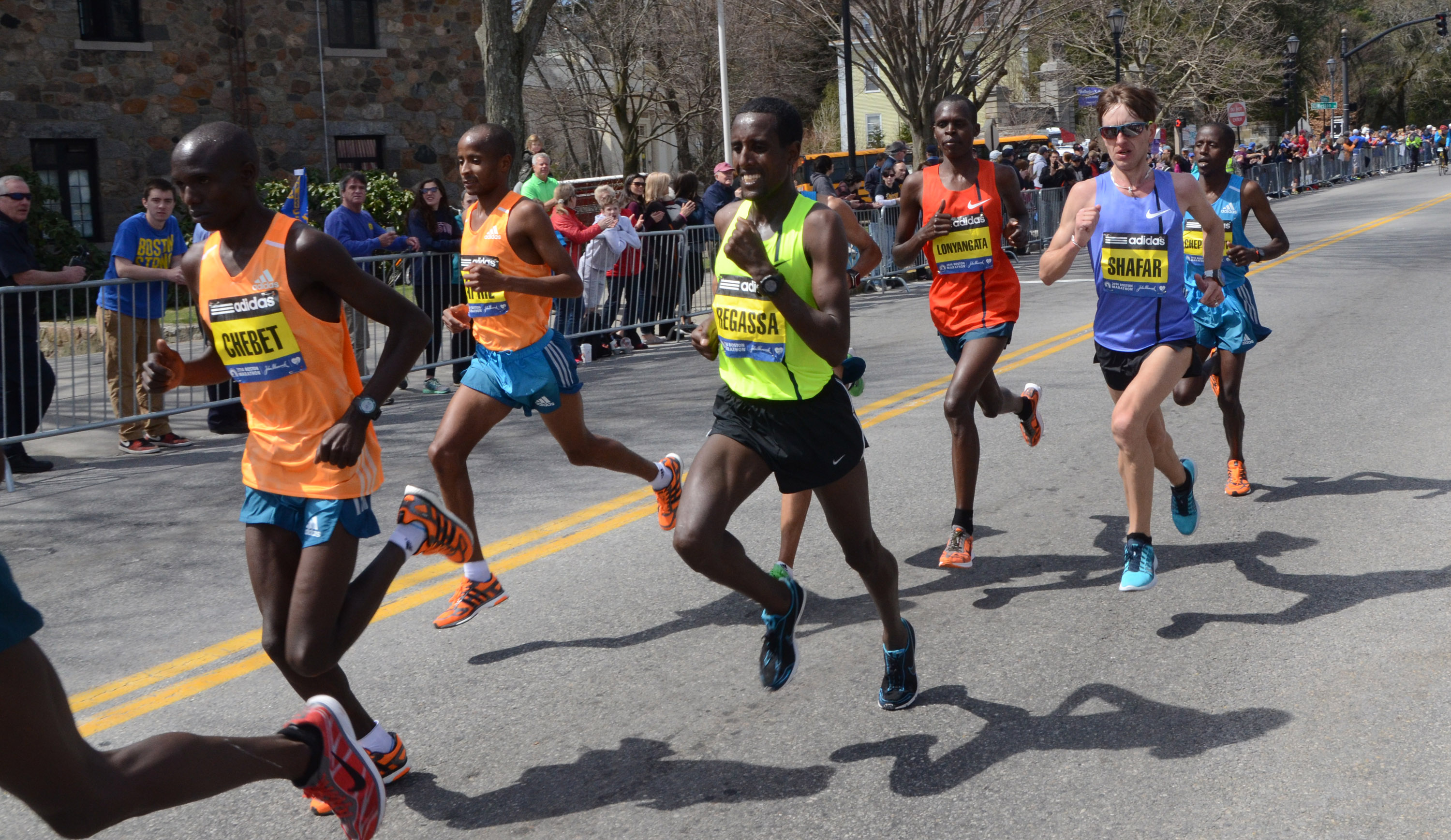 2014 Boston Marathon second half of lead men in Wellesley near half way point. Chebet is 8th runner at the moment this picture was taken.